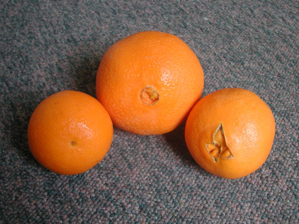 Bottom part of the navel orange.